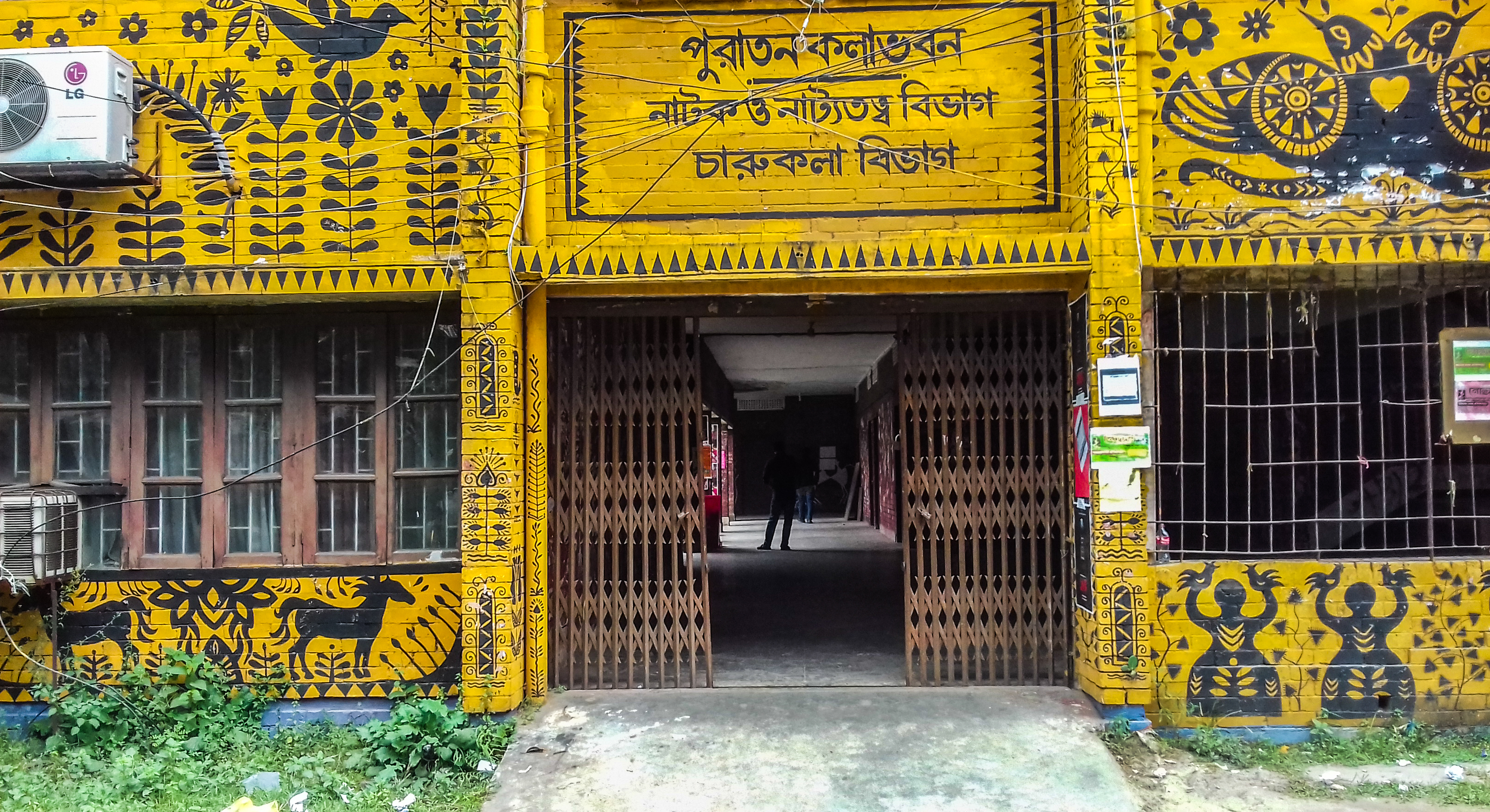 Main gate of Old Arts building at Jahangirnagar University,Bangladesh.